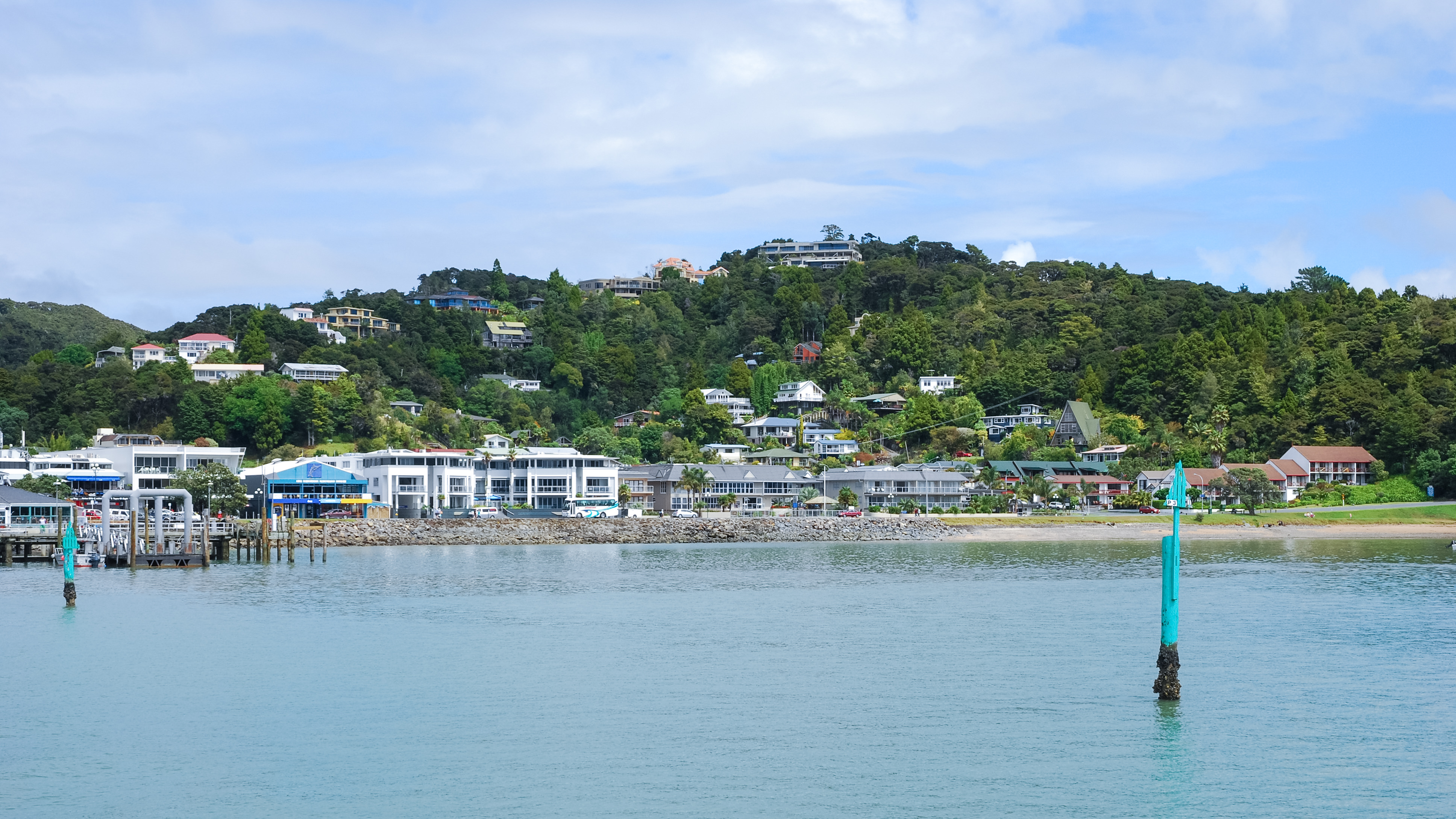 A view of northern Paihia as seen from the ferry to Russell